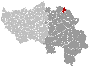 Map, municipality belgium Kelmis